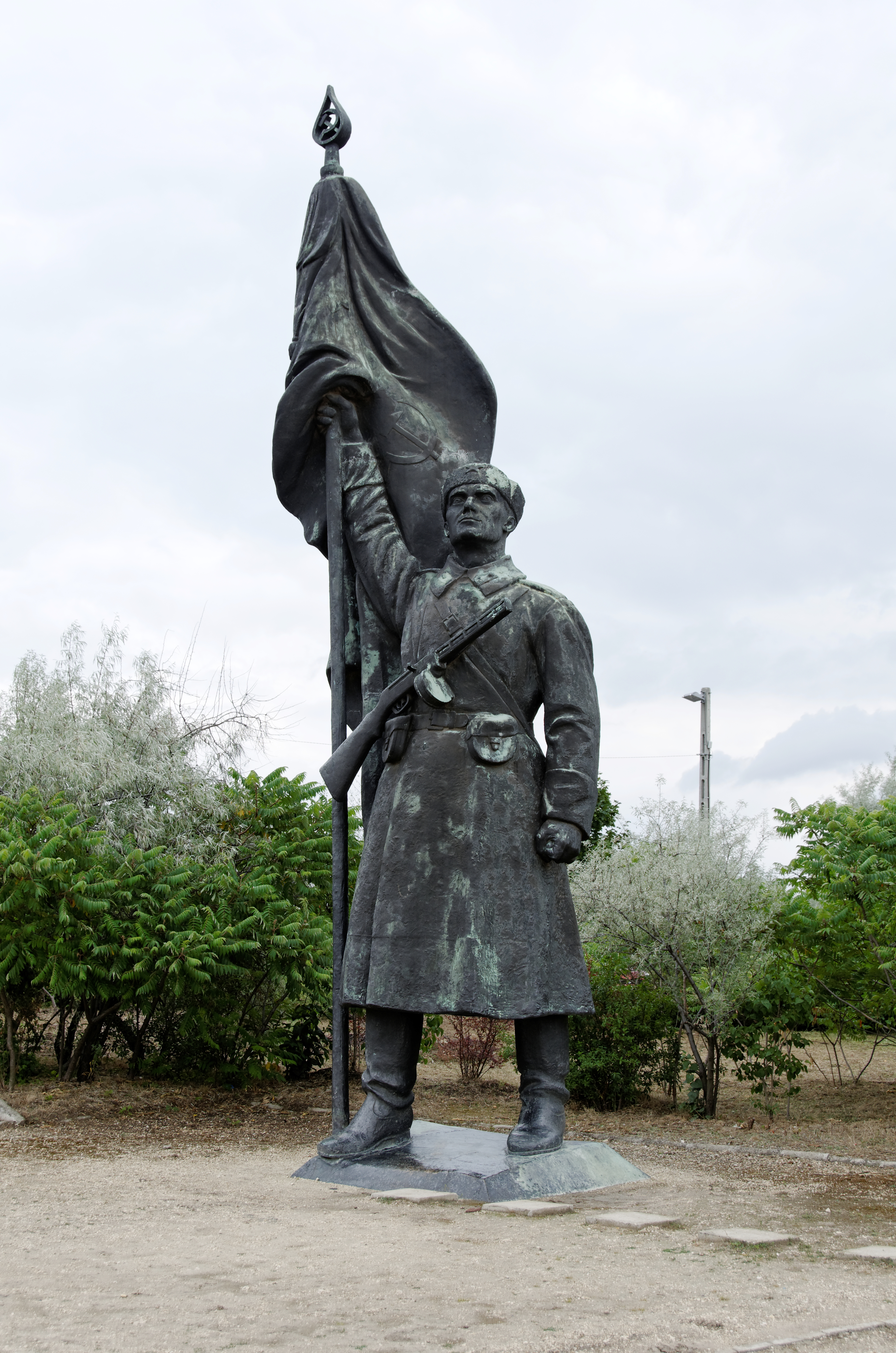 Red army soldier statue which stood below the Liberation Monument (Szabadság szobor) at the top of the Gellért Hill (Gellért-hegy) of Budapest. The 6 meter hight bronze soldier, with clenched fist while his right hand holds a flag, was part of the Liberation Monument on Gellért Hill, the highest place in Budapest. It was erected in 1947 to commemorate Hungary's liberation from the Nazis and the fallen soviet soldiers. During the national uprising in 1956 the original soviet soldier was destroyed but two years later a new copy of the soldier satue was replaced again to the monument. After the fall of Communism, the new soviet soldier was removed again from the monument and now stands in the Memento Park.